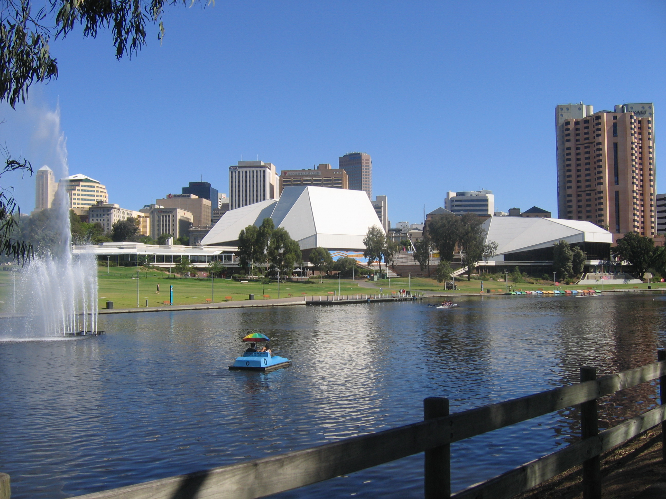 adelaide festival centre and hyatt hotel by the torrens river